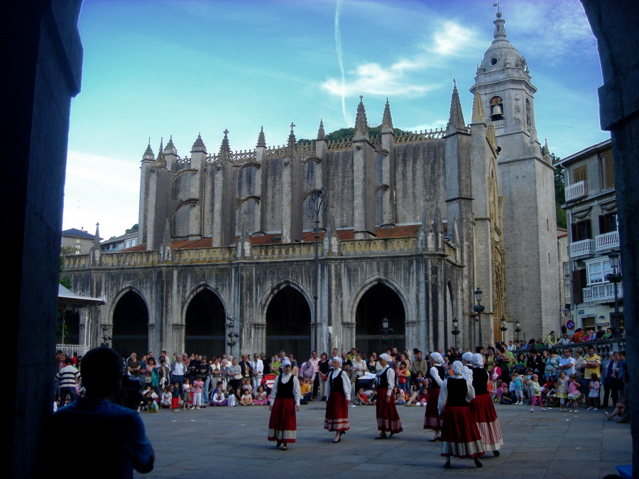 Church of Lekeitio